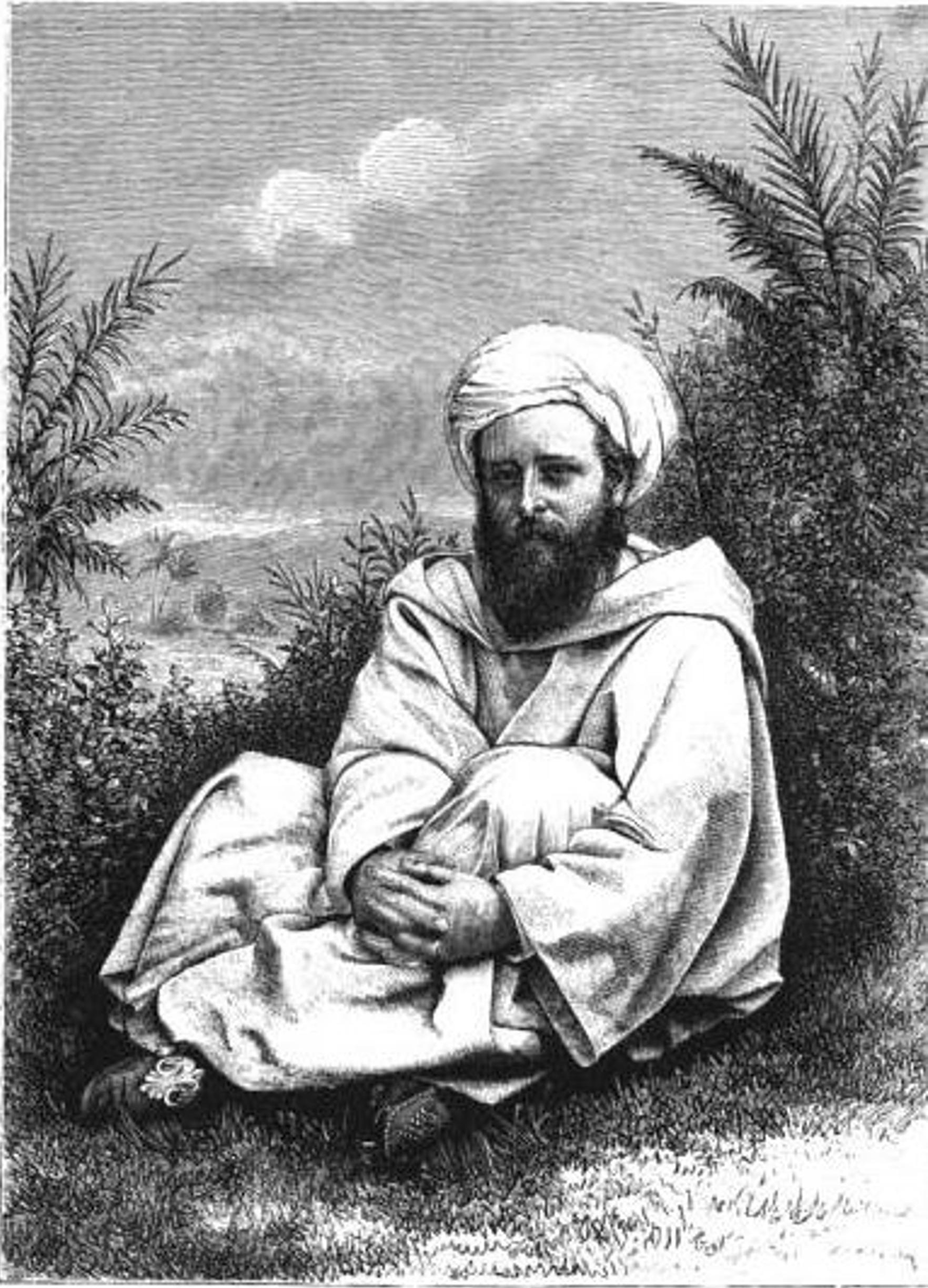 Frontispiece – "The Author in Moorish Dress."